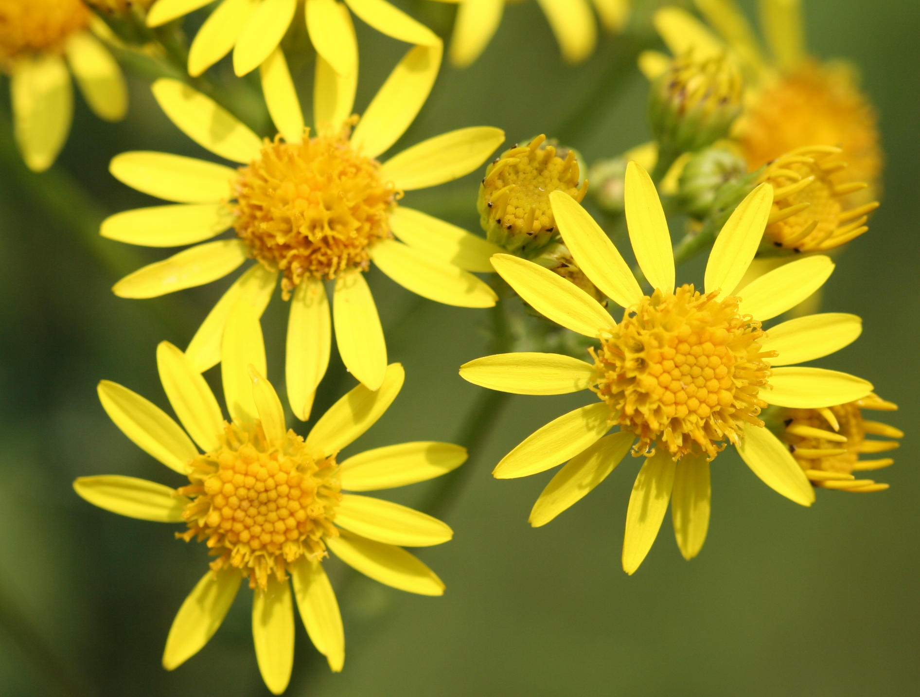 Jacobaea vulgaris or Senecio vulgaris (Ragwort) on a roadside near Massy, France.